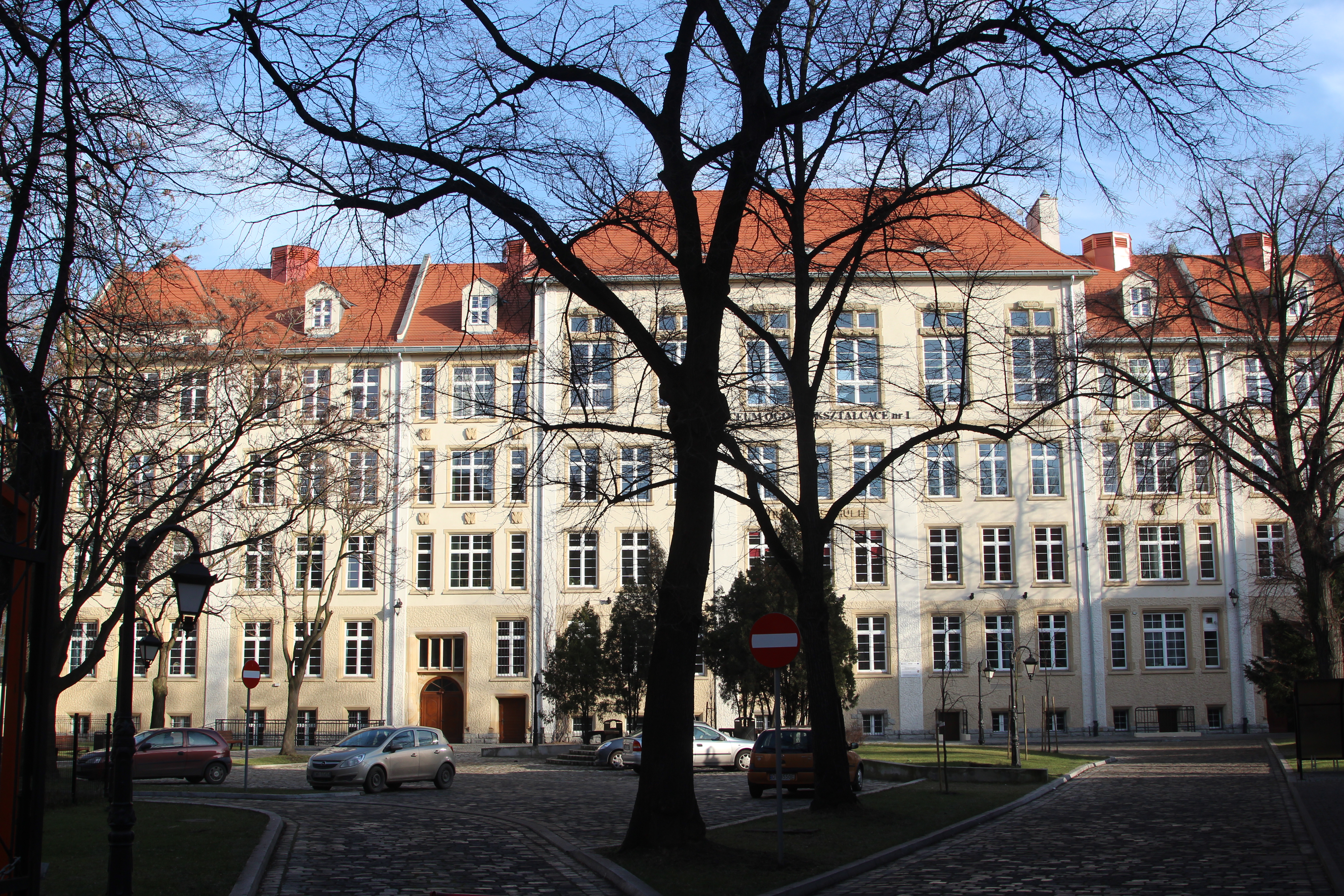 1st LO in Wroclaw